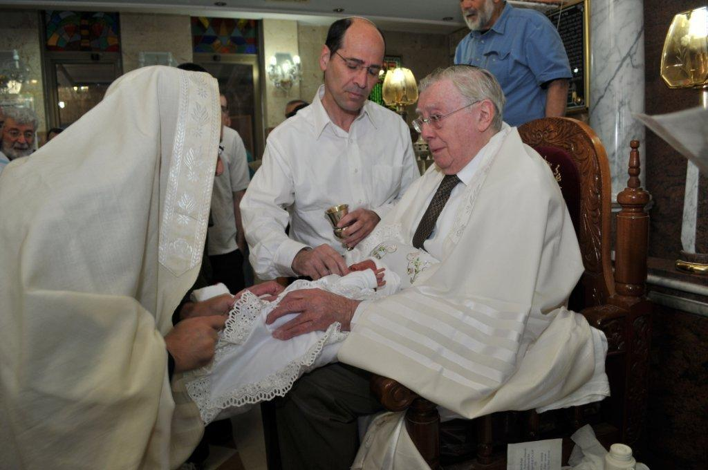 BRIT MILA CERMONY